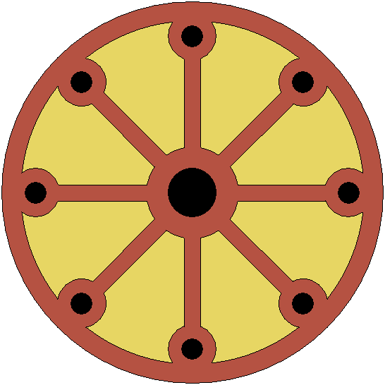 Shieldpattern of Legio Secunda Brittannica (also Legio II Brittannica) in early 5th century. Source: Notitia Dignitatum Occ VII.